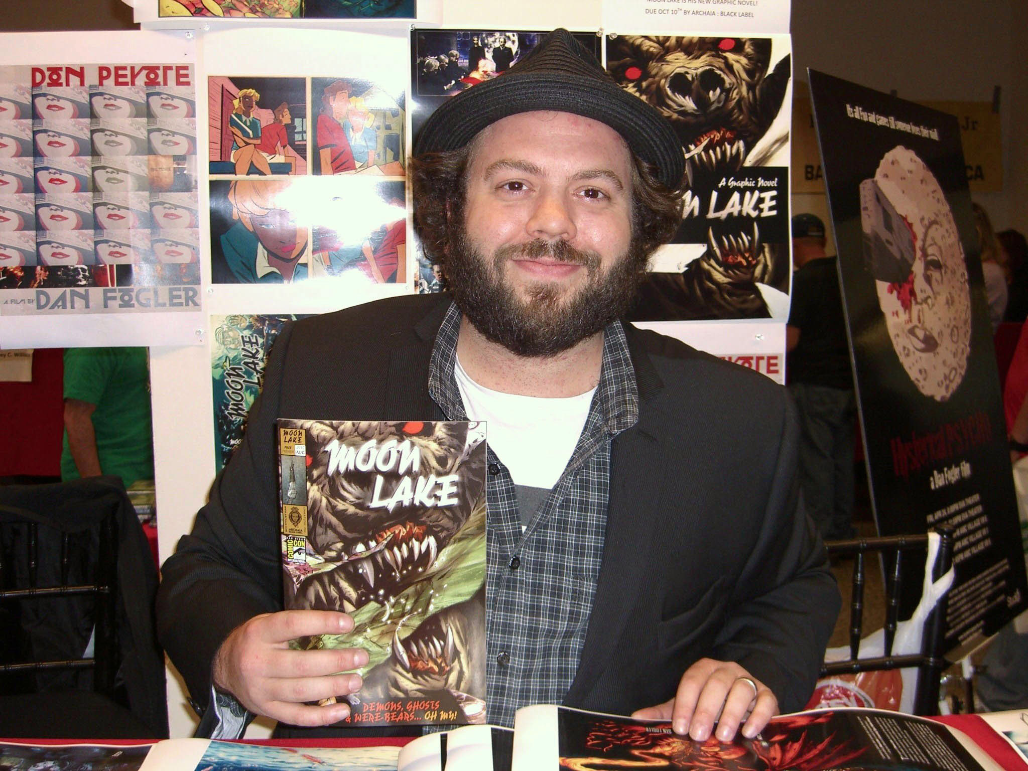 Actor Dan Fogler at the Big Apple Convention in Manhattan, October 2, 2010. Photo by Luigi Novi. This photo may be used, modified and published for any purpose, only if a easily visible credit to the photographer is placed near the photo in each instance in which it is used. (See licensing information below.) Publication of this photo without this proper attribution constitutes copyright infringement. For more information on my photos, you can contact me here.